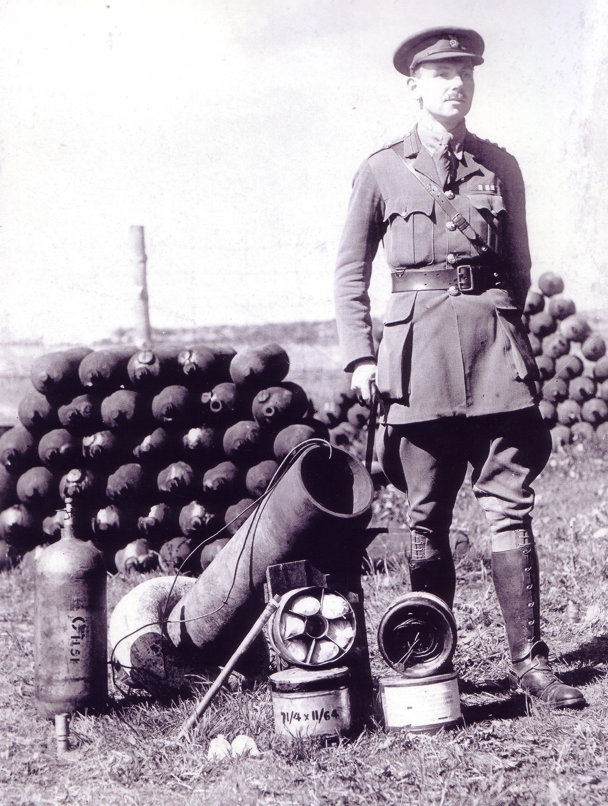 William Howard Livens standing by a display of his Livens Projector.